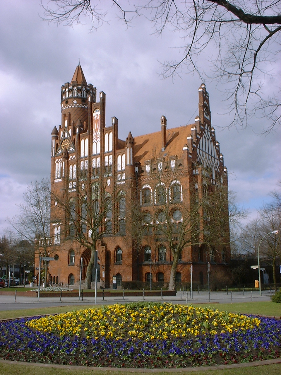 Former town hall of Schmargendorf in Berlin, Germany